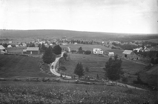 Panorama of Elgin, New Brunswick, circa 1900.